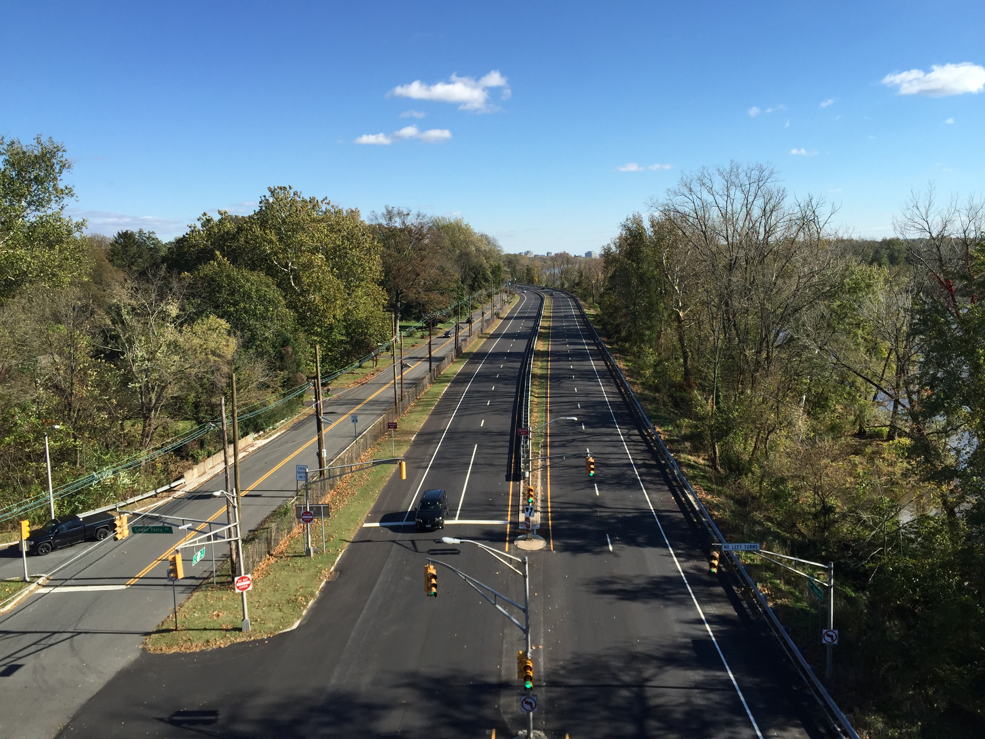 View south along New Jersey State Route 29 (Daniel Bray Highway) and New Jersey State Route 175 (River Road) from the West Trenton Railroad Bridge in Ewing Township, Mercer County, New Jersey